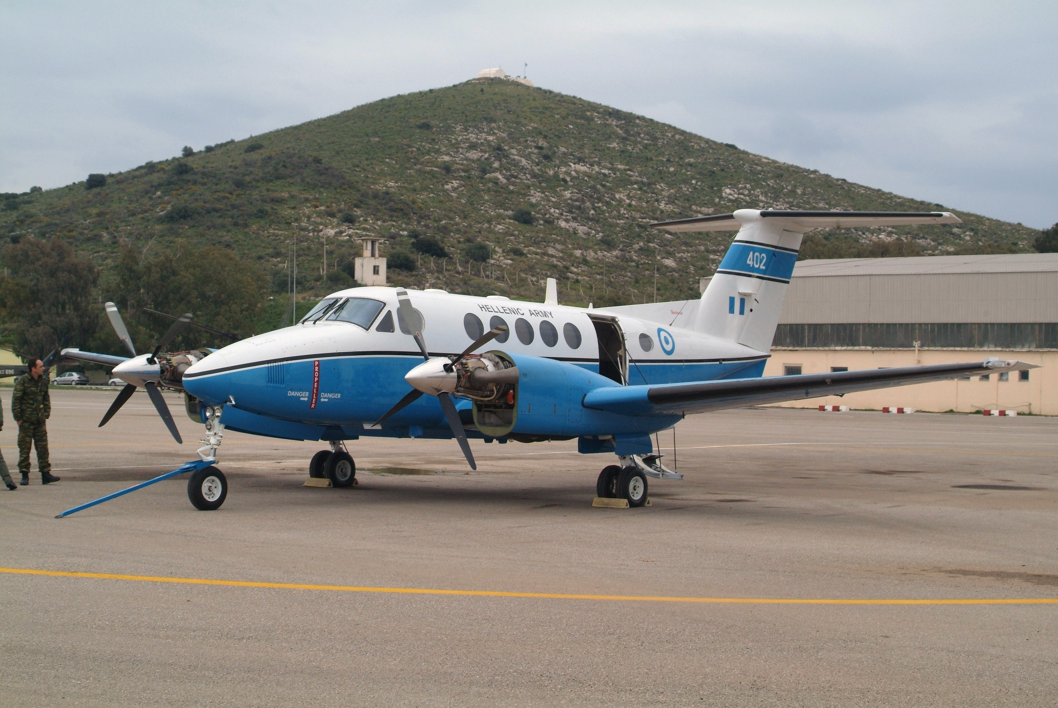 this is the only one that has been active in recent years.